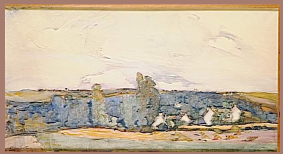 Florence Esté (1860-1926)'s painting of a Breton village was purchased by the state (France) from the Salon de l'Arc-en-ciel, Galerie Goupil, 1918.